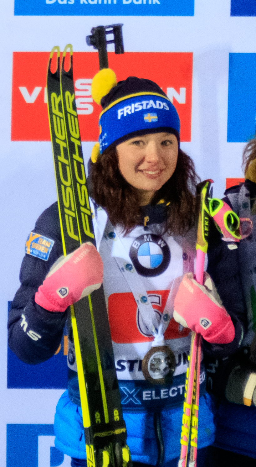 Linn Persson in Östersund 2019